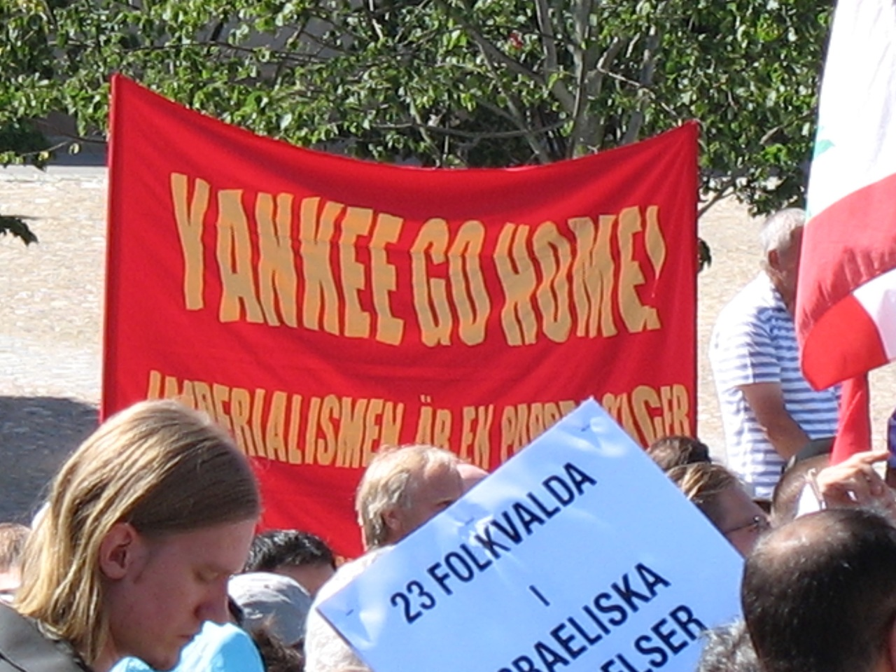 Anti-American ("Yankee go home – the imperialism is a paper tiger") and anti-Israeli ("23 popularly elected in Israeli prisons") banners and placards at a demonstration in Kungsträdgården in Stockholm, Sweden, against Israel's 2006 Lebanon War. About 1 500 people participated in the demonstration, which was followed by riots.